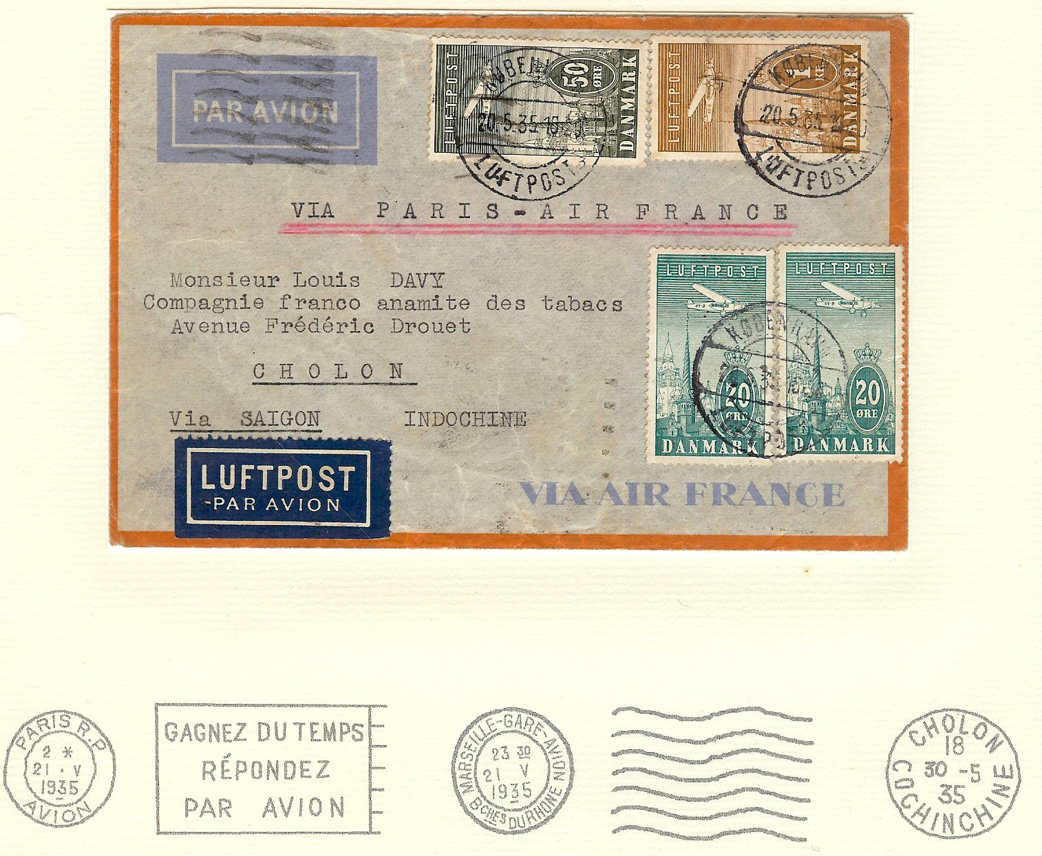 Scan of 1935 airmail cover from Denmark to Indochine